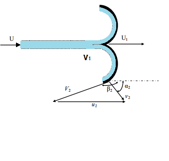 Schematic diagram of velocity components of flow inside a Pelton Bucket